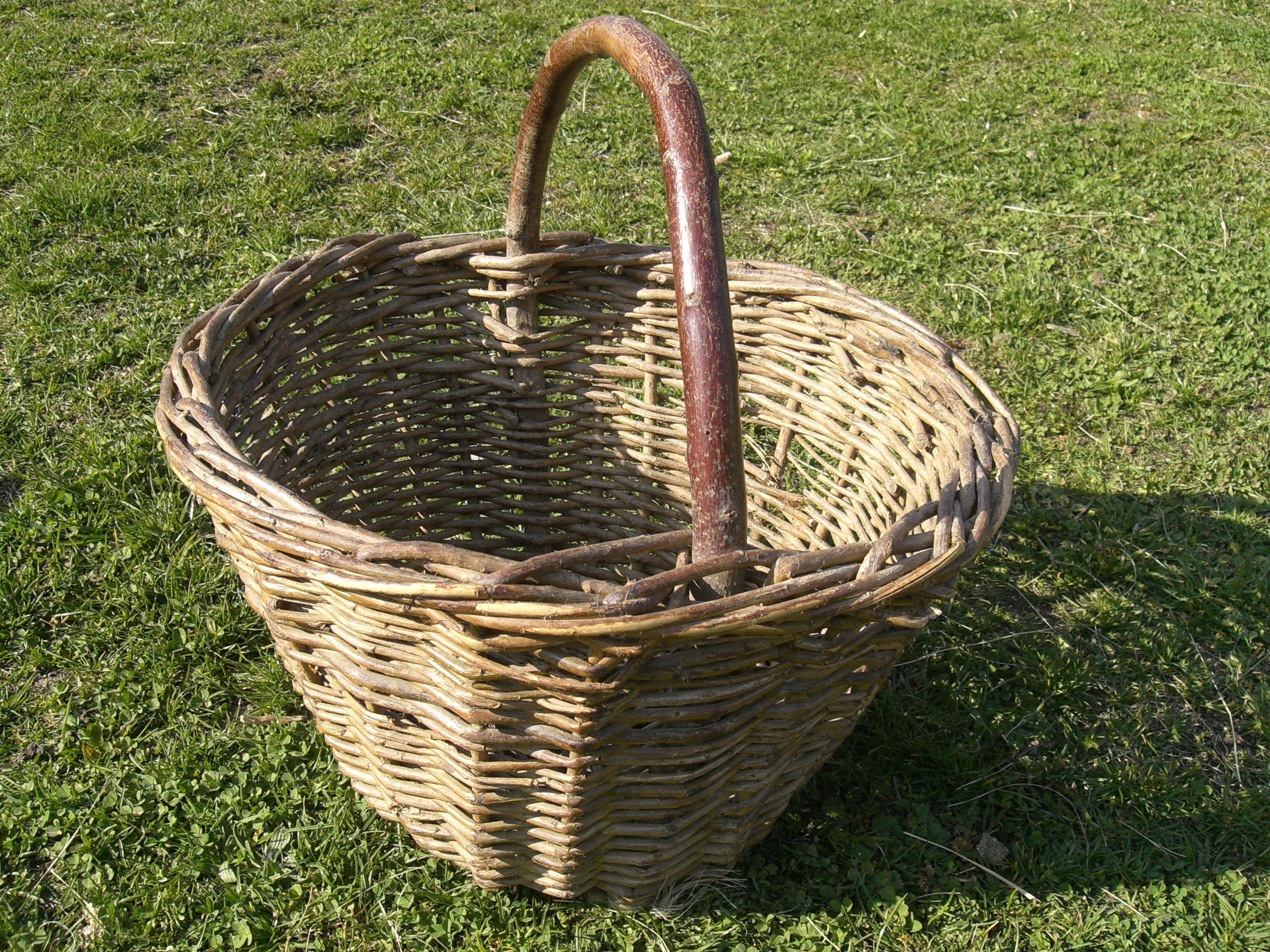 Woven basket for fruit or vegetables. Czech countryside